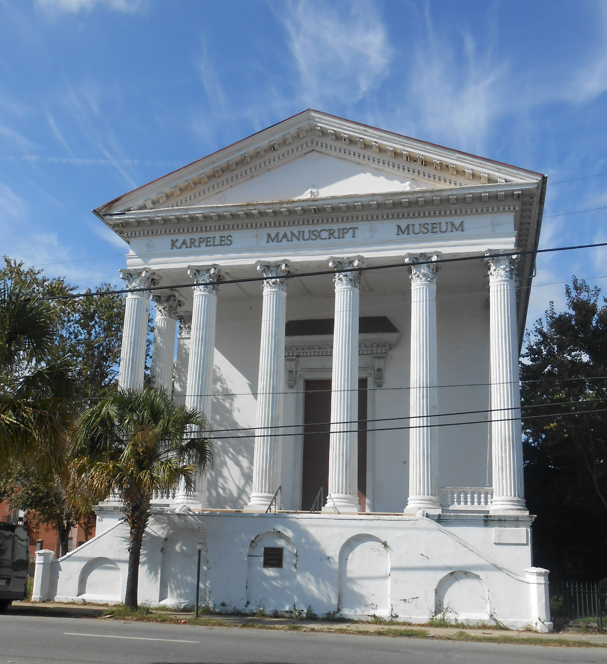 The Karpeles Manuscript Museum in Charleston, South Carolina is located in the 19th century Greek Revival church building.